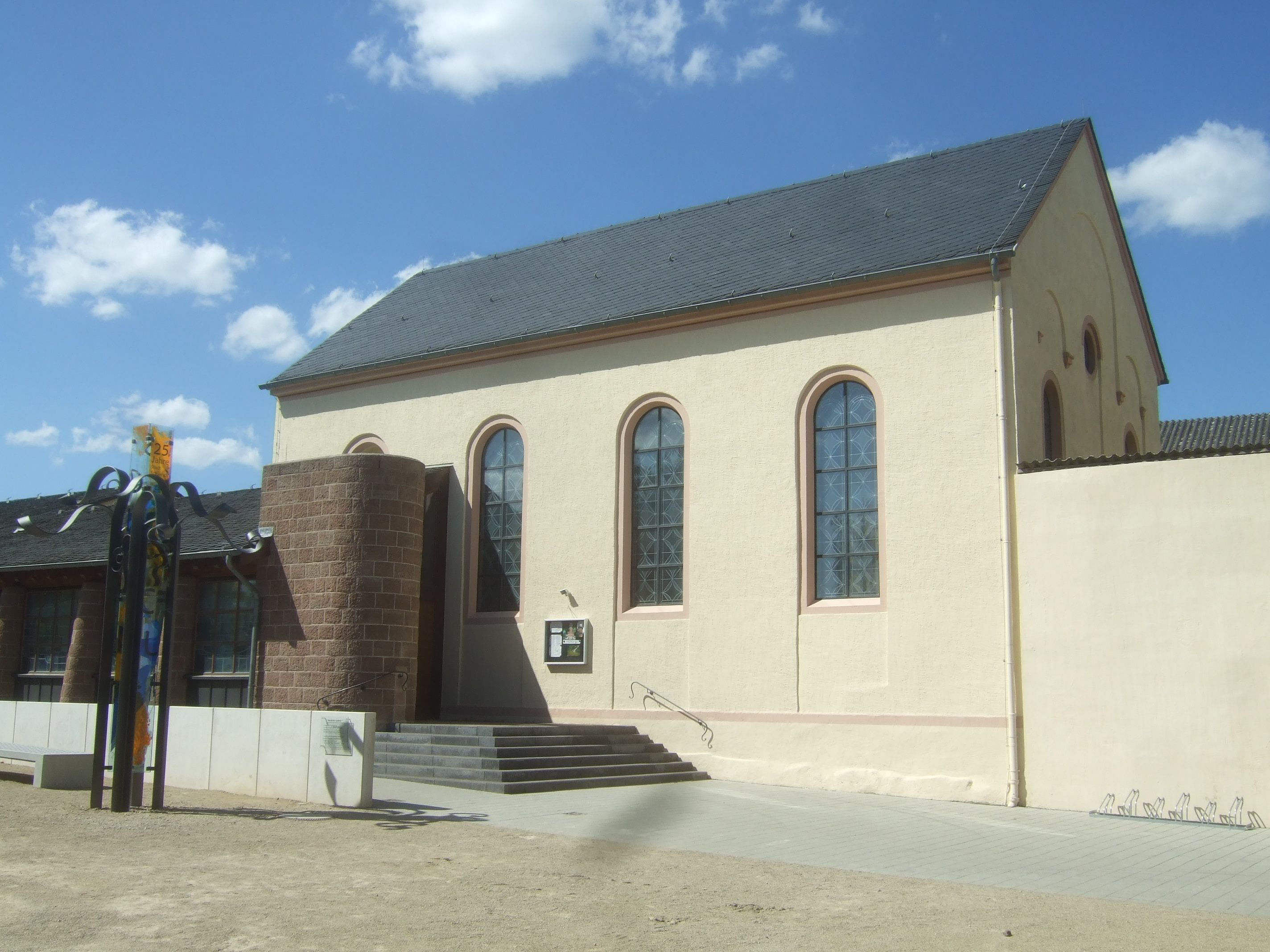 Schweich, ehemalige Synagoge